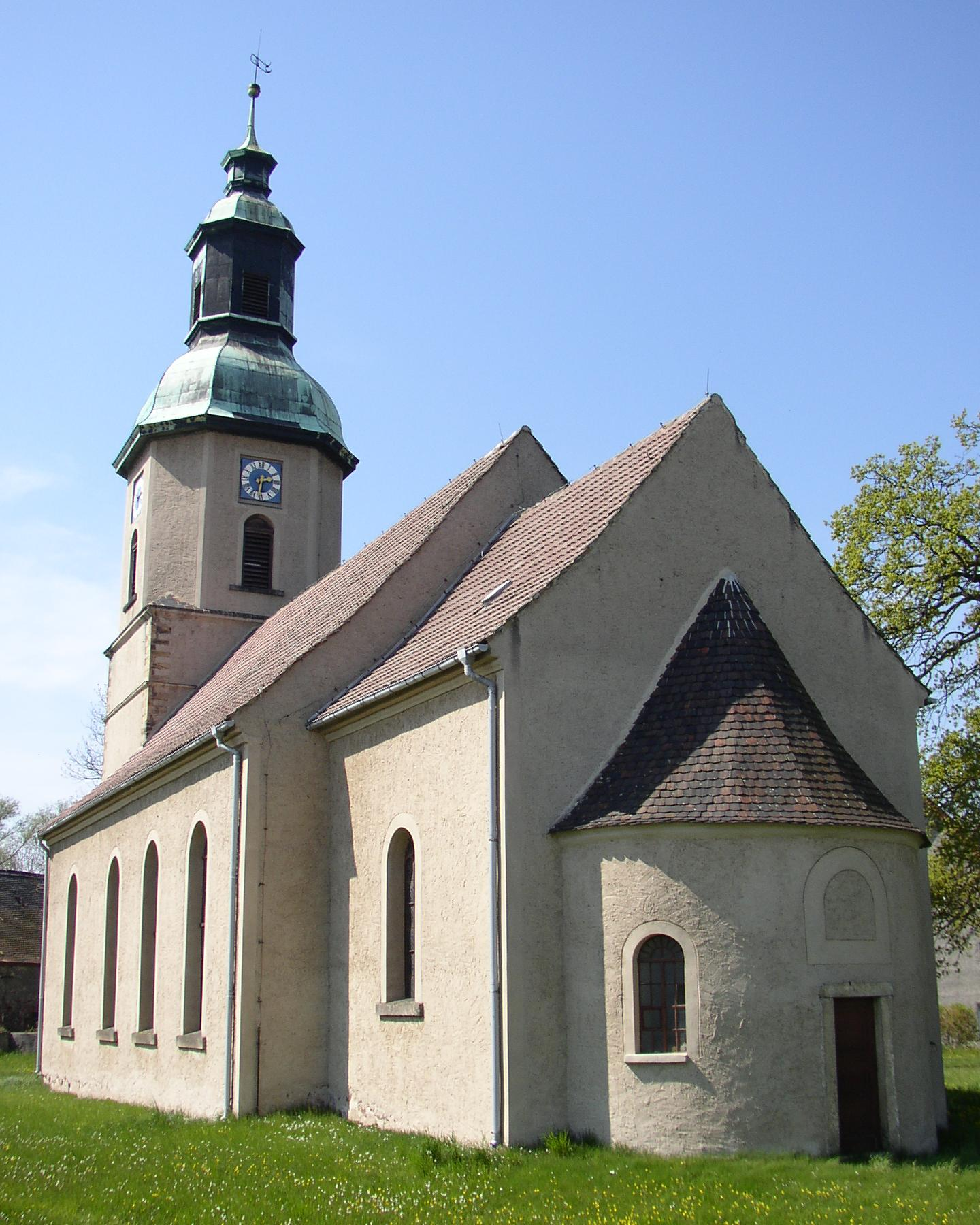 Church in Mockrehna-Audenhain in Saxony, Germany